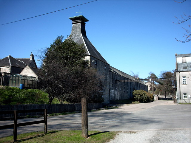 Mortlach Distillery, Dufftown. Mortlach was the first distillery to be licensed in Dufftown. This was in 1824.It is one of the seven original distilleries in the town.